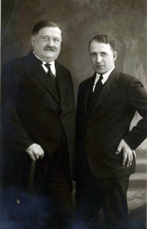 Citation: H.S. Bender Photographs. HM4-083. Mennonite Church USA Archives - Goshen. Goshen, Indiana.